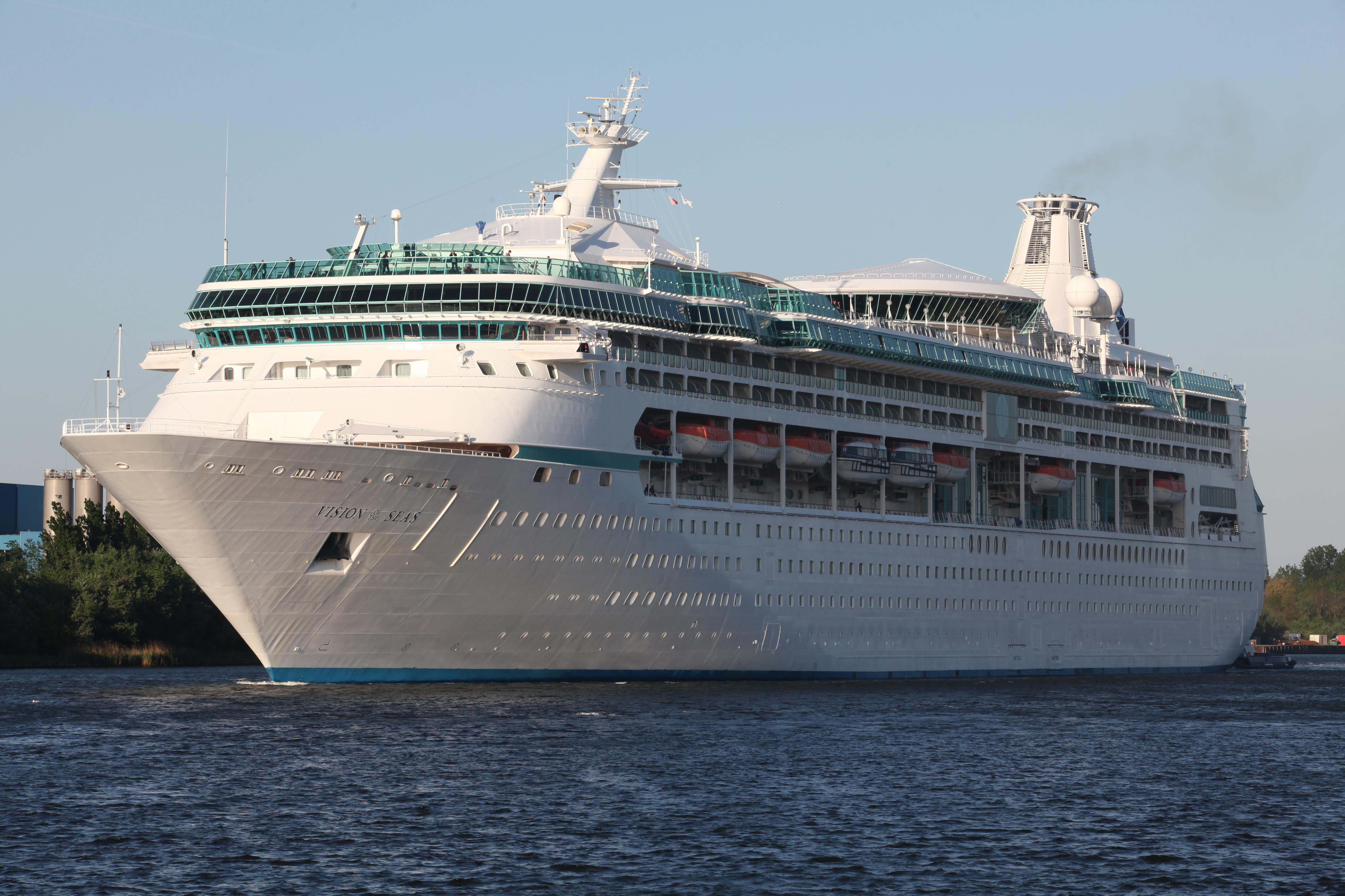 vision of the seas nassau